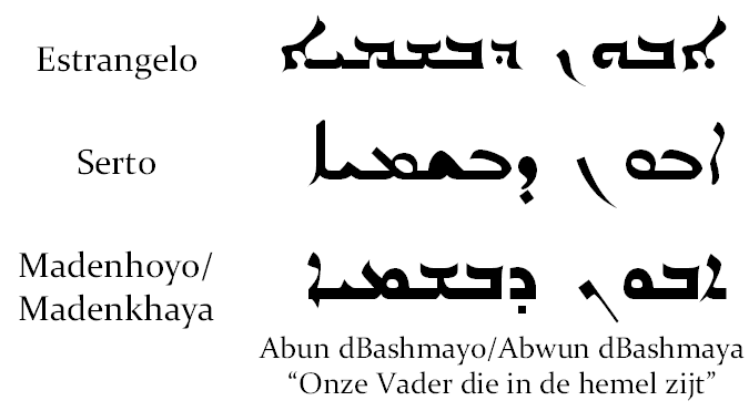 Syriac written in Estrangelo, Serto and Madenhoyo form.